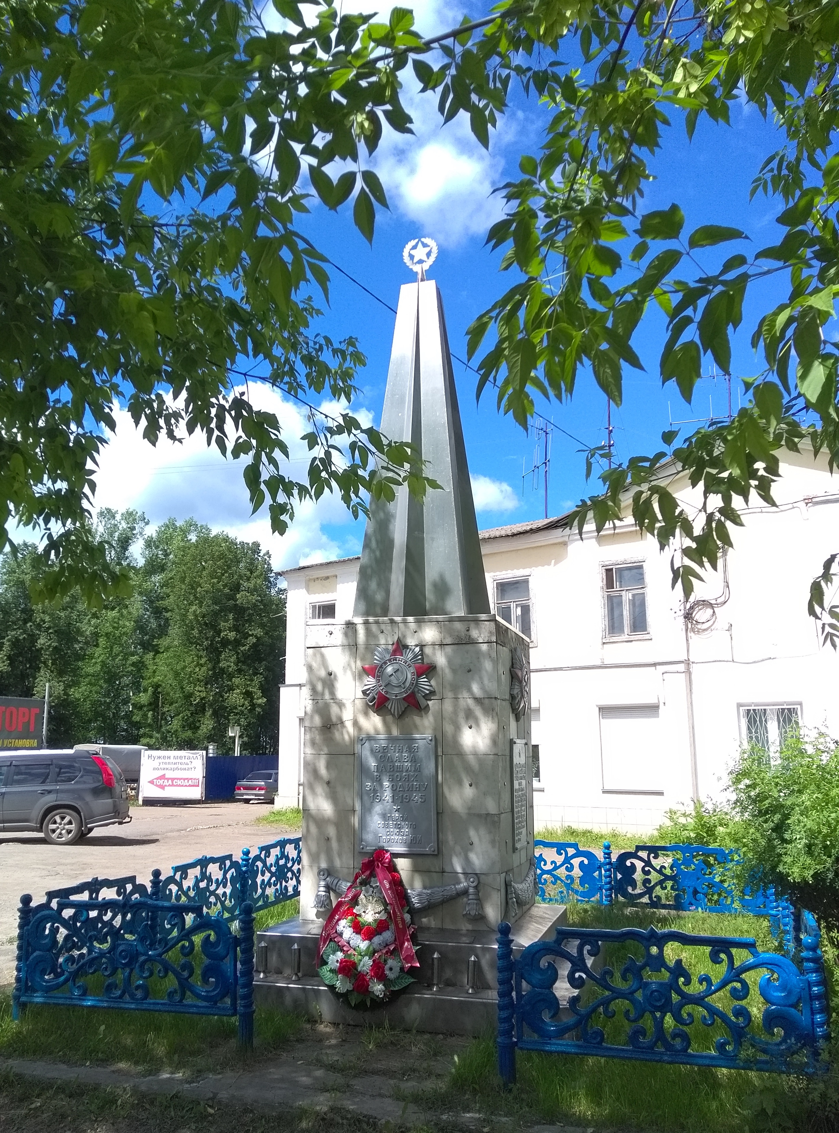 Memorial to the Fallen of the Great Patriotic War, Gorokhov Y. I., Hero of the Soviet Union, Kineshma, Vichugskaya st.